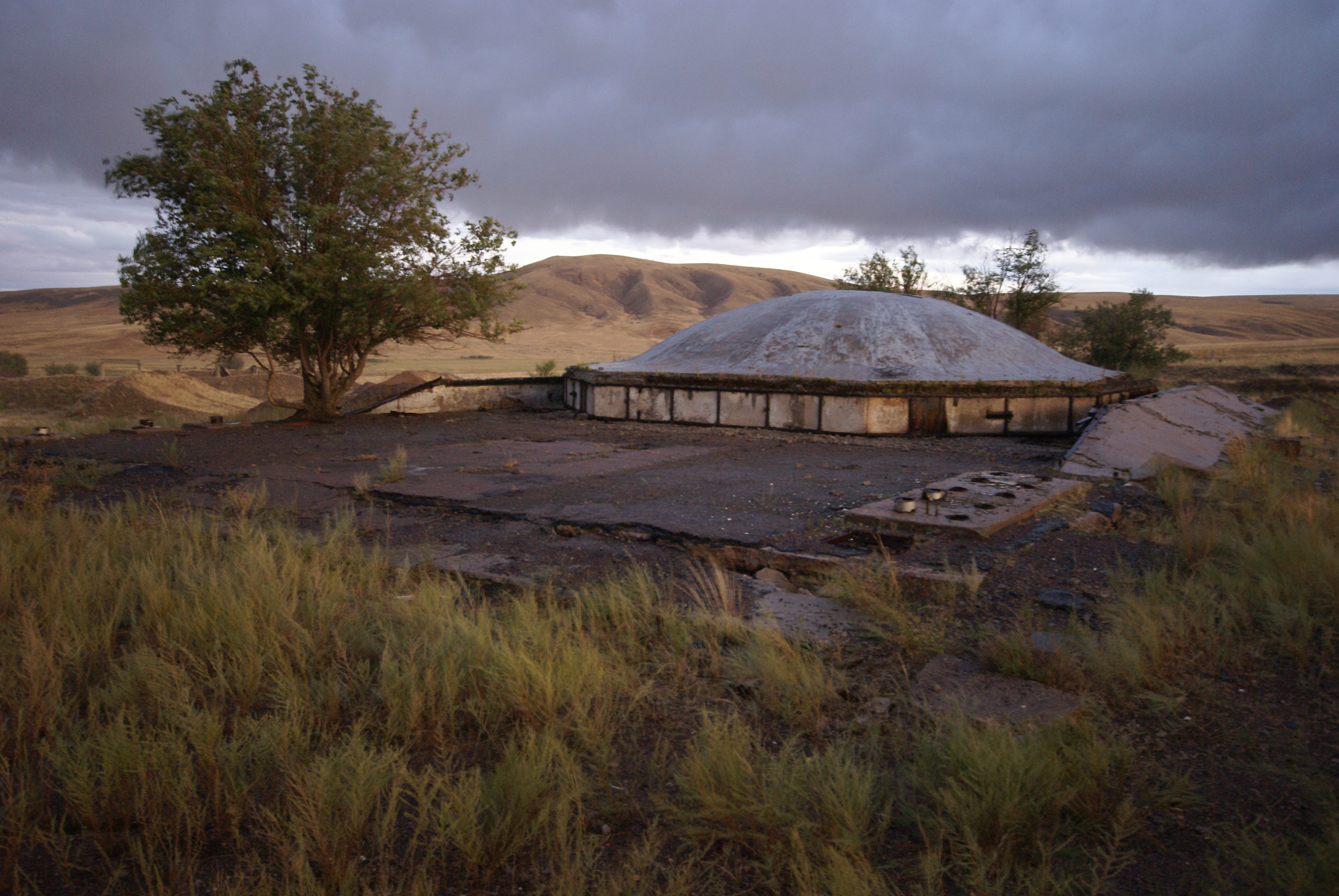 Saryozek, exterior of the Eastern Missile Silo Site.